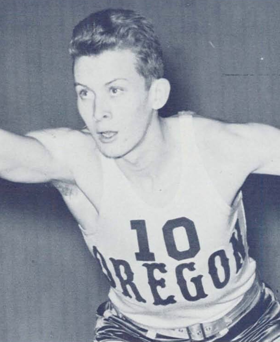 University of Oregon basketball player Wally Borrevik in 1944